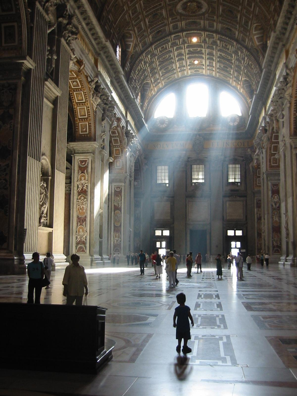 Light streaming into St Peter's Basillica, Vatican City, Rome, Italy